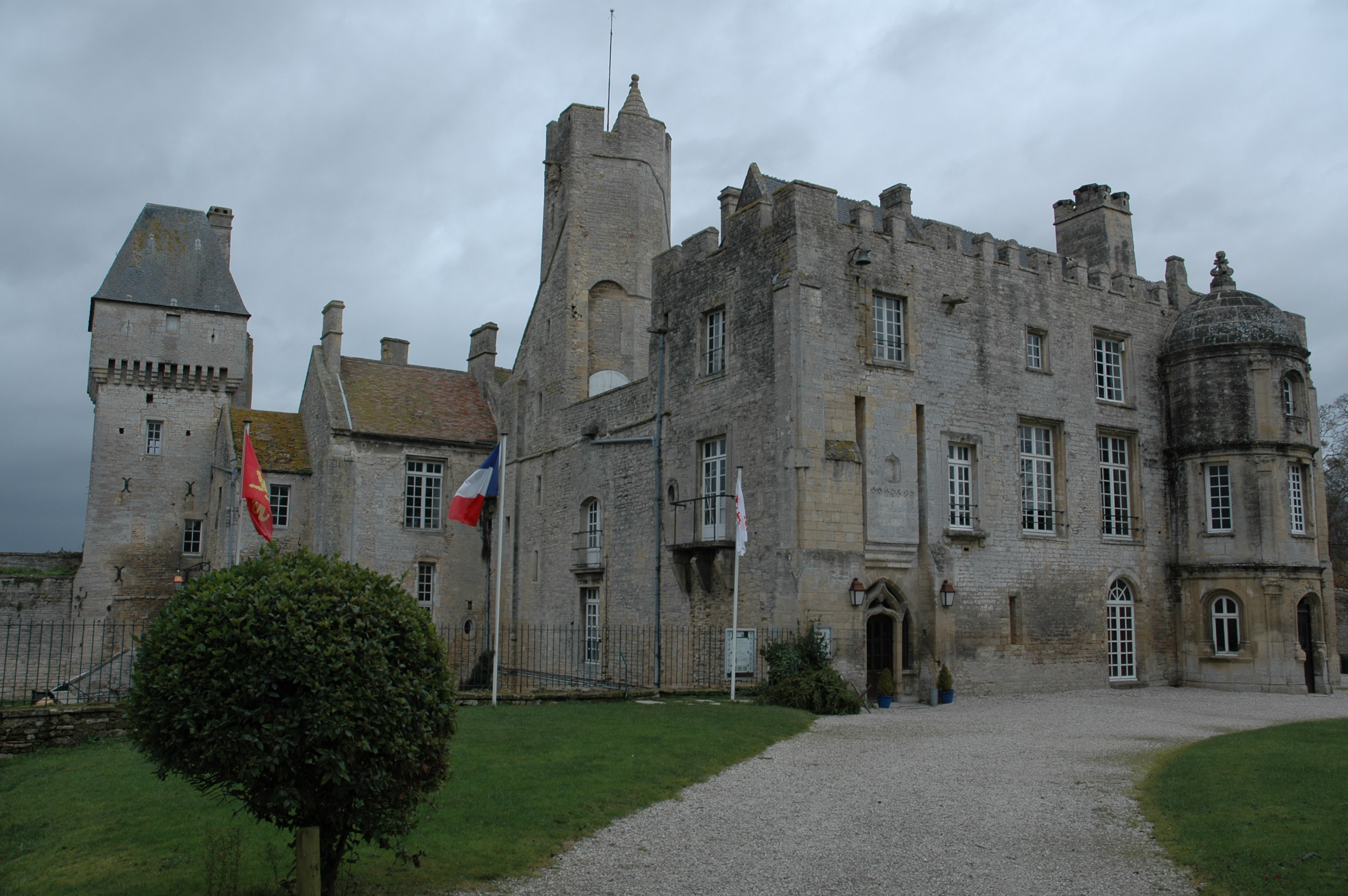 Creully Castle (Creully), Basse-Normandy, France